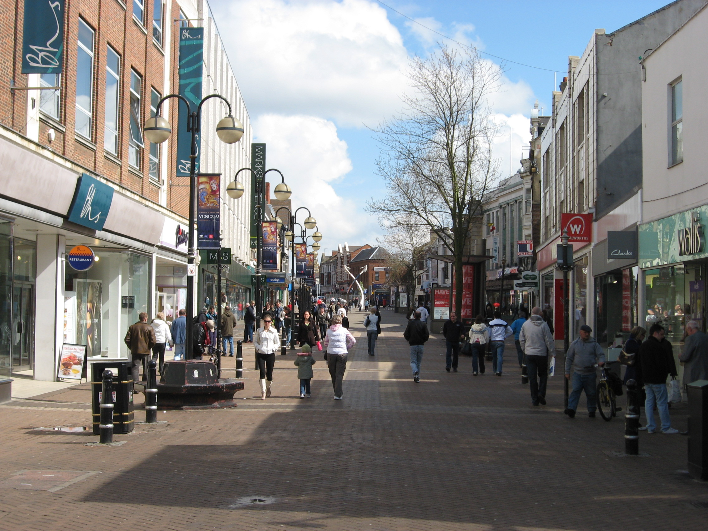 Deptak w Northampton